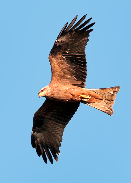 Black Kite